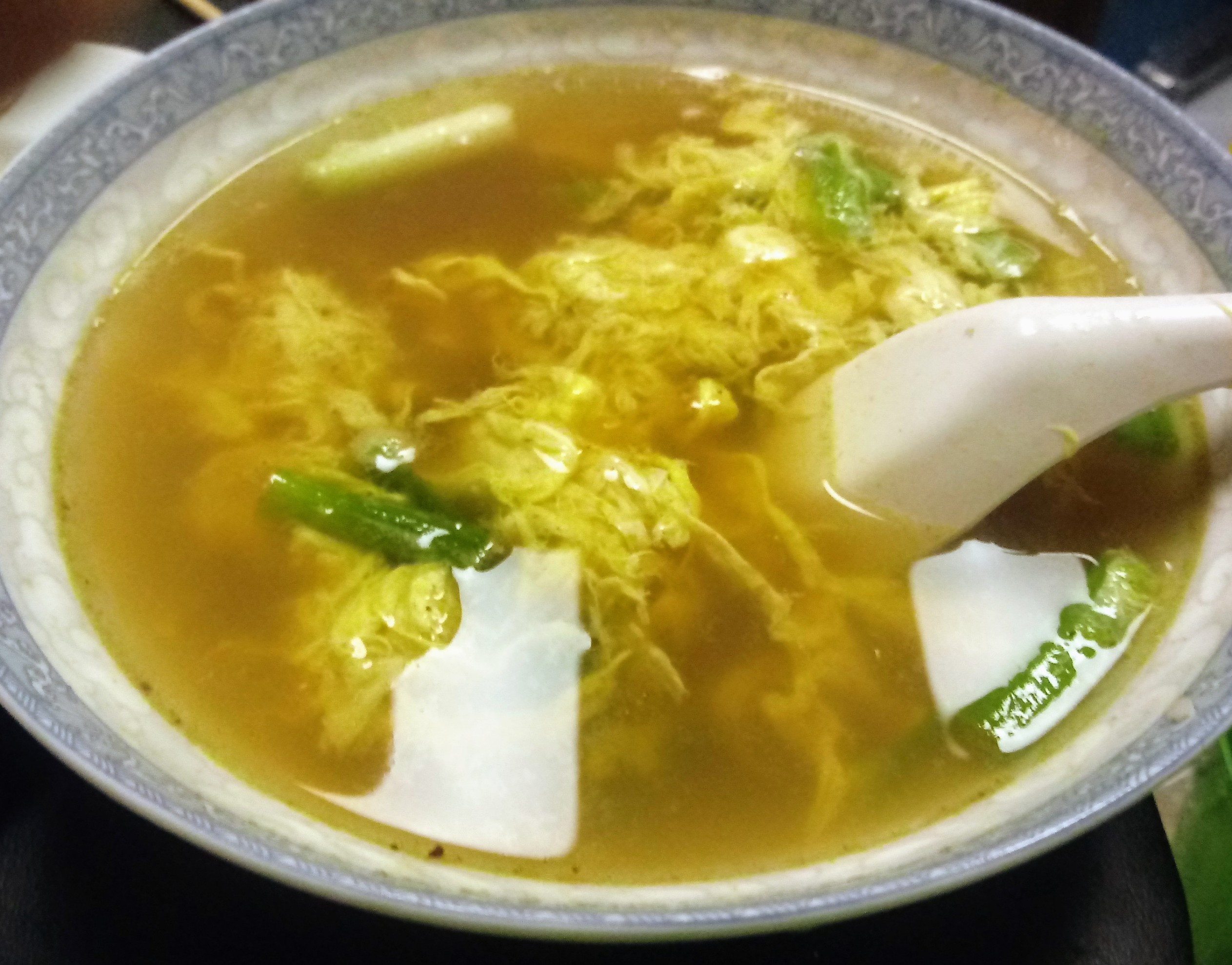 A bowl of eff drop soup in Fresno, California